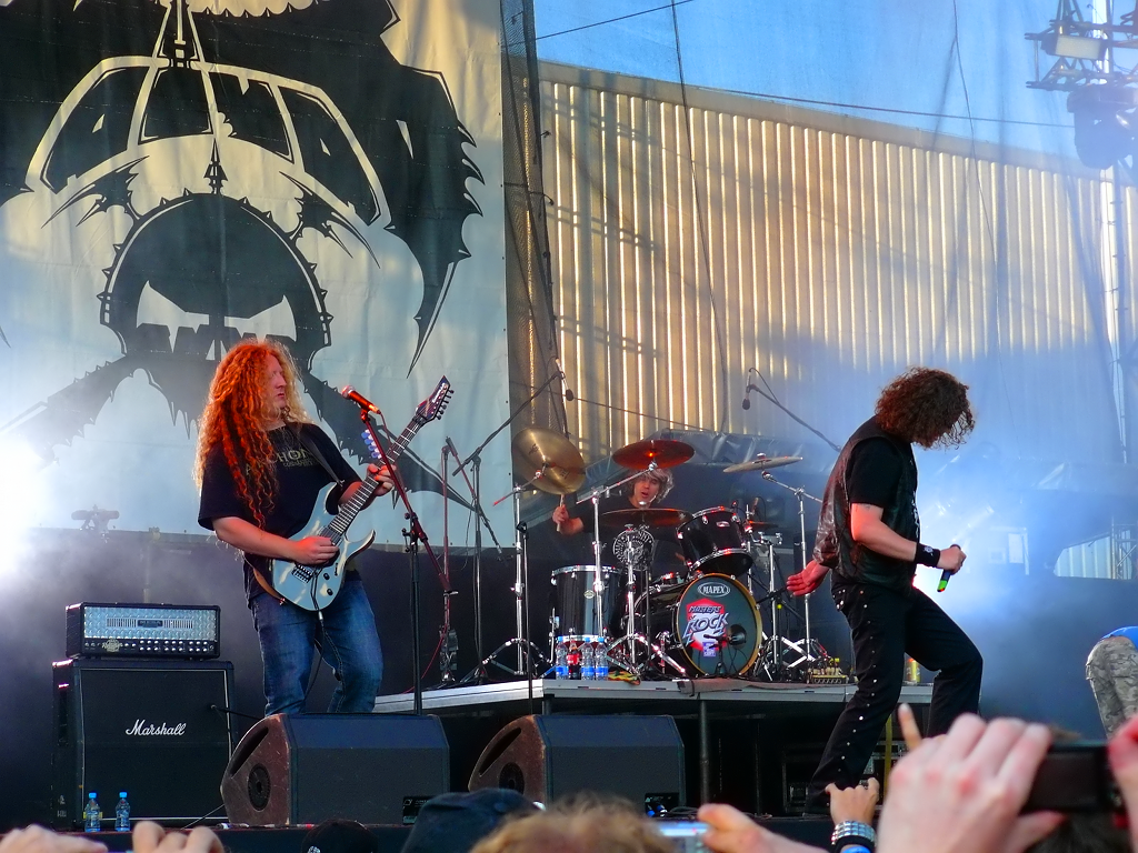 Voivod on Masters of Rock '09